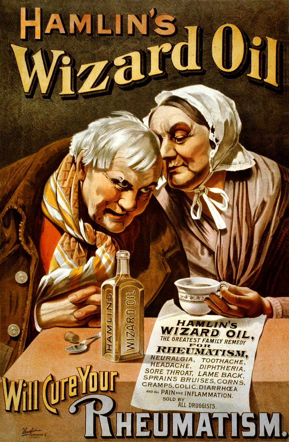 Hamlin's Wizard Oil, the greatest family remedy for rheumatism, neuralgia, toothache, headache, diphtheria, sore throat, lame back, sprains, bruises, corns, cramps, colic, diarrhœa and all pain and inflammation. Sold by all druggists. Advertising for turn-of-the-century miracle cure, chromolithograph by Hughes Lithographers, Chicago. Undated, estimated to be from around 1890.